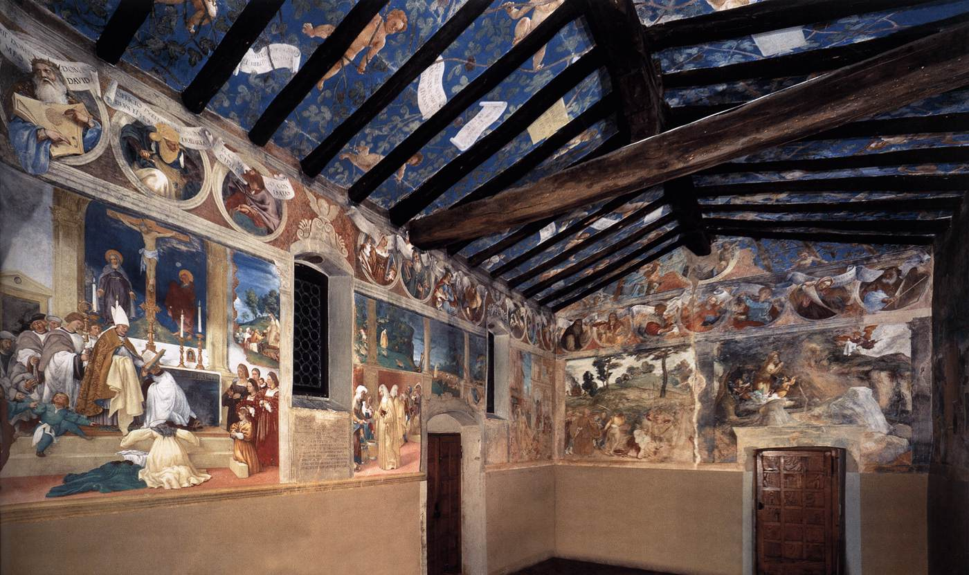 View of the oratory toward the entrance side